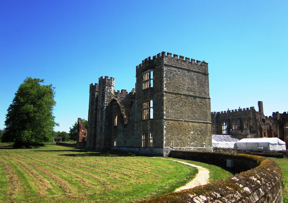 Cowdray Castle, a fortified manor house located near Midhurst, West Sussex, England